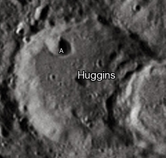 Huggins lunar crater as seen from Earth with satellite craters labeled